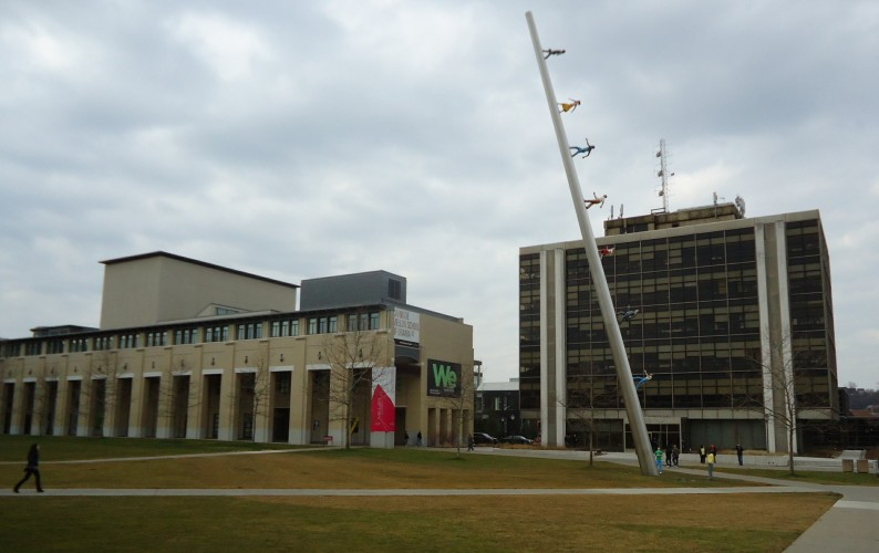 Building on the campus of Carnegie-Mellon University in Pittsburgh, Pennsylvania.